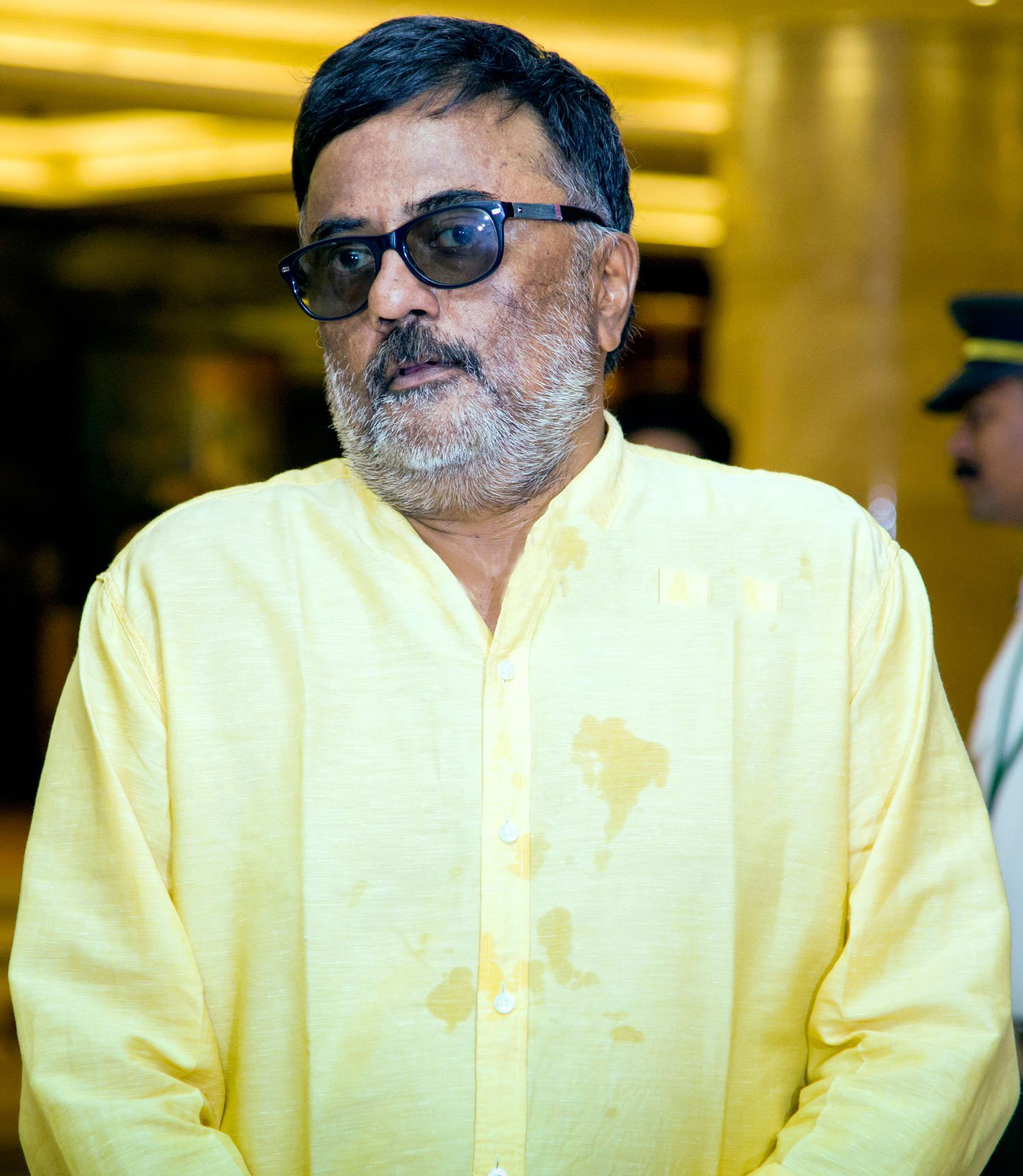 PC Sreeram at the Oh Kadhal Kanmani aka OK Kanmani Audio Success Meet